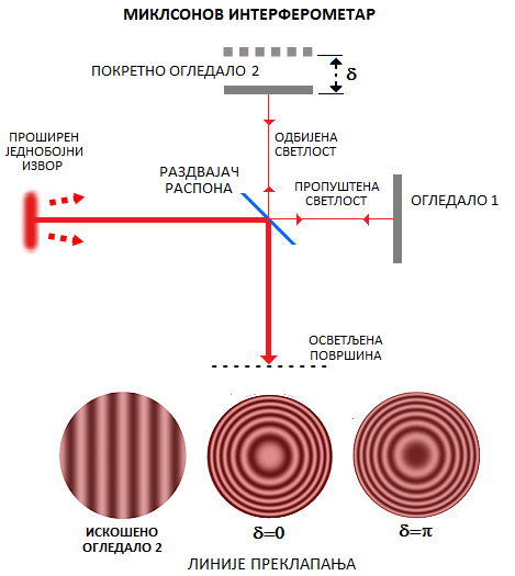 МИКЛСОНОВ ИНТЕРФЕРОМЕТАР